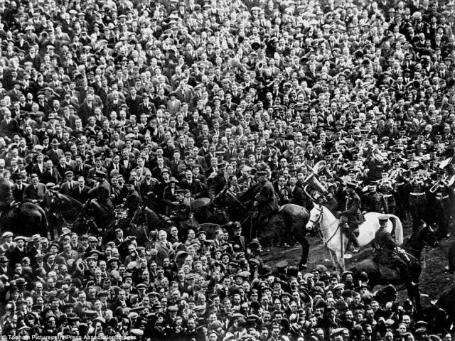 1923 FA Cup Final: Mounted police keep an excess of 300,000 fans from spilling onto the Wembley pitch, including constable George Scorey and his white horse Billy.